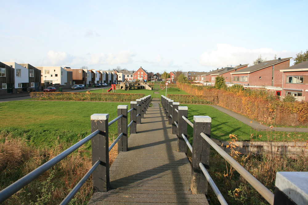 Quarter 'Ruischerwaard' of Groningen, the Netherlands.